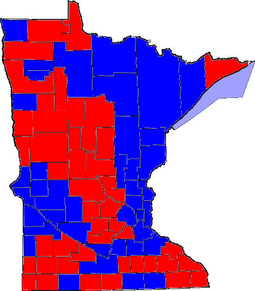 1996 Minnesota Senate election results by county.